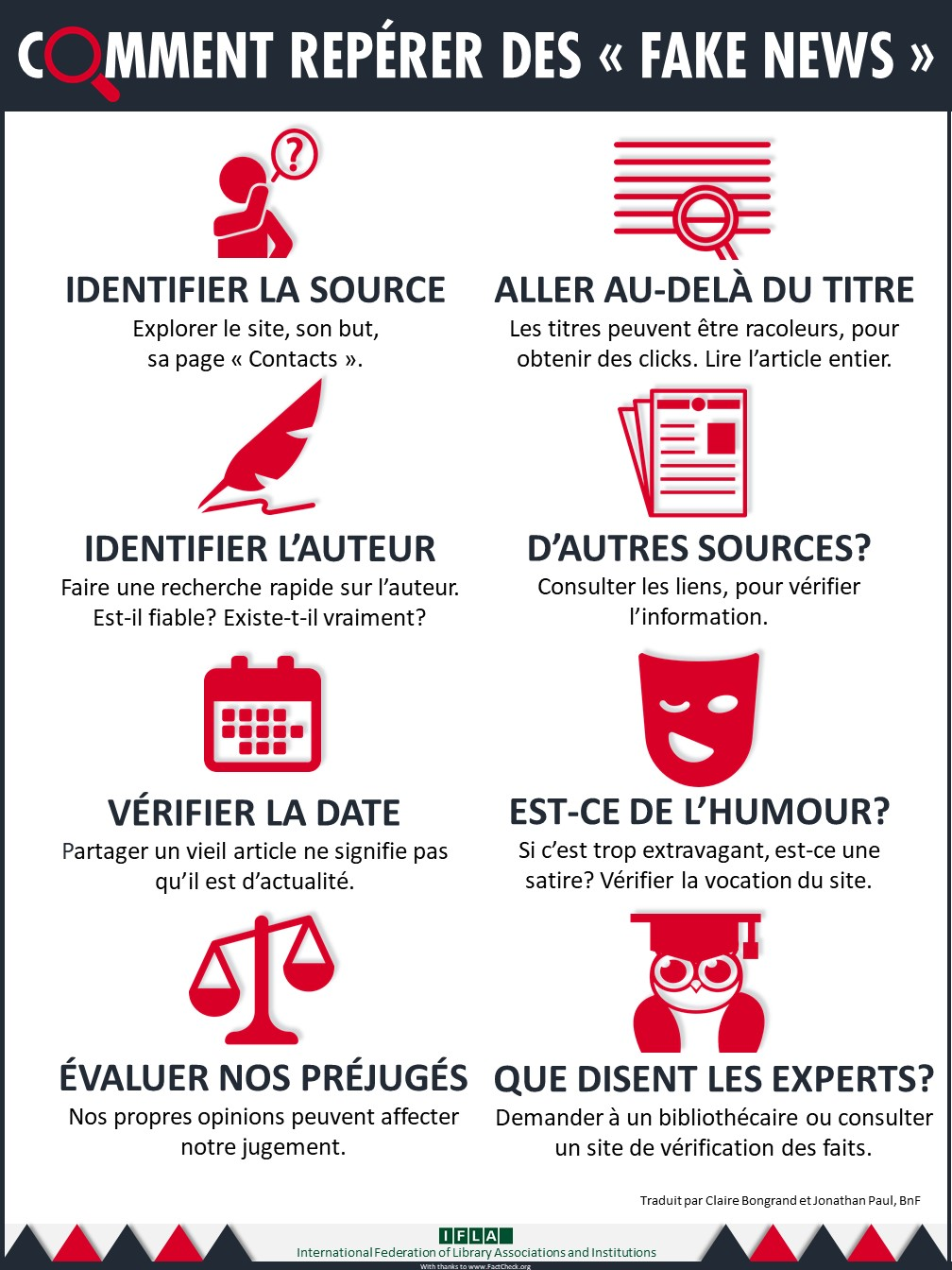 French translation of IFLA infographic based on ’s 2016 article "How to Spot Fake News" in JPG format.